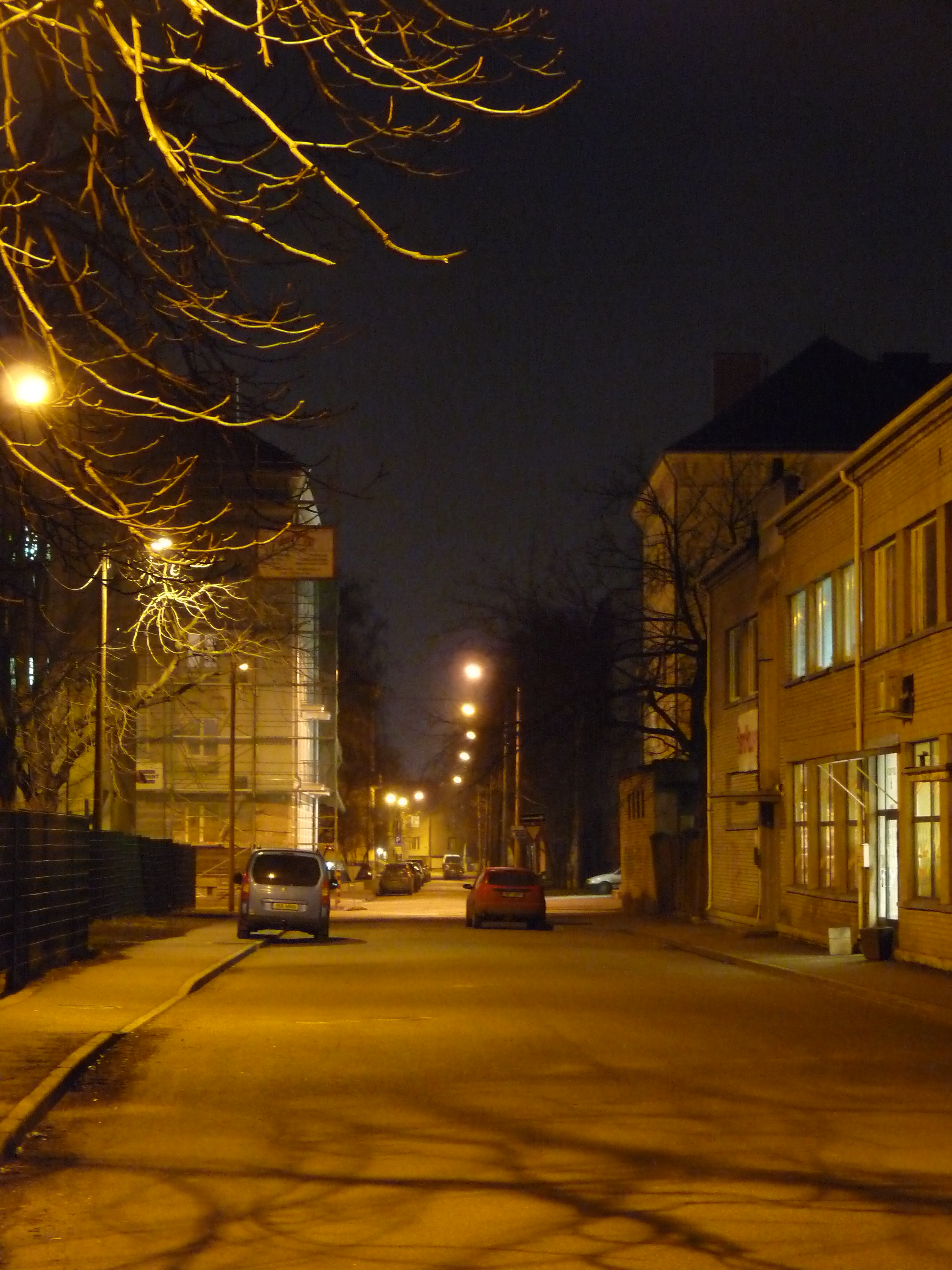 Videviku street in Tallinn, Estonia